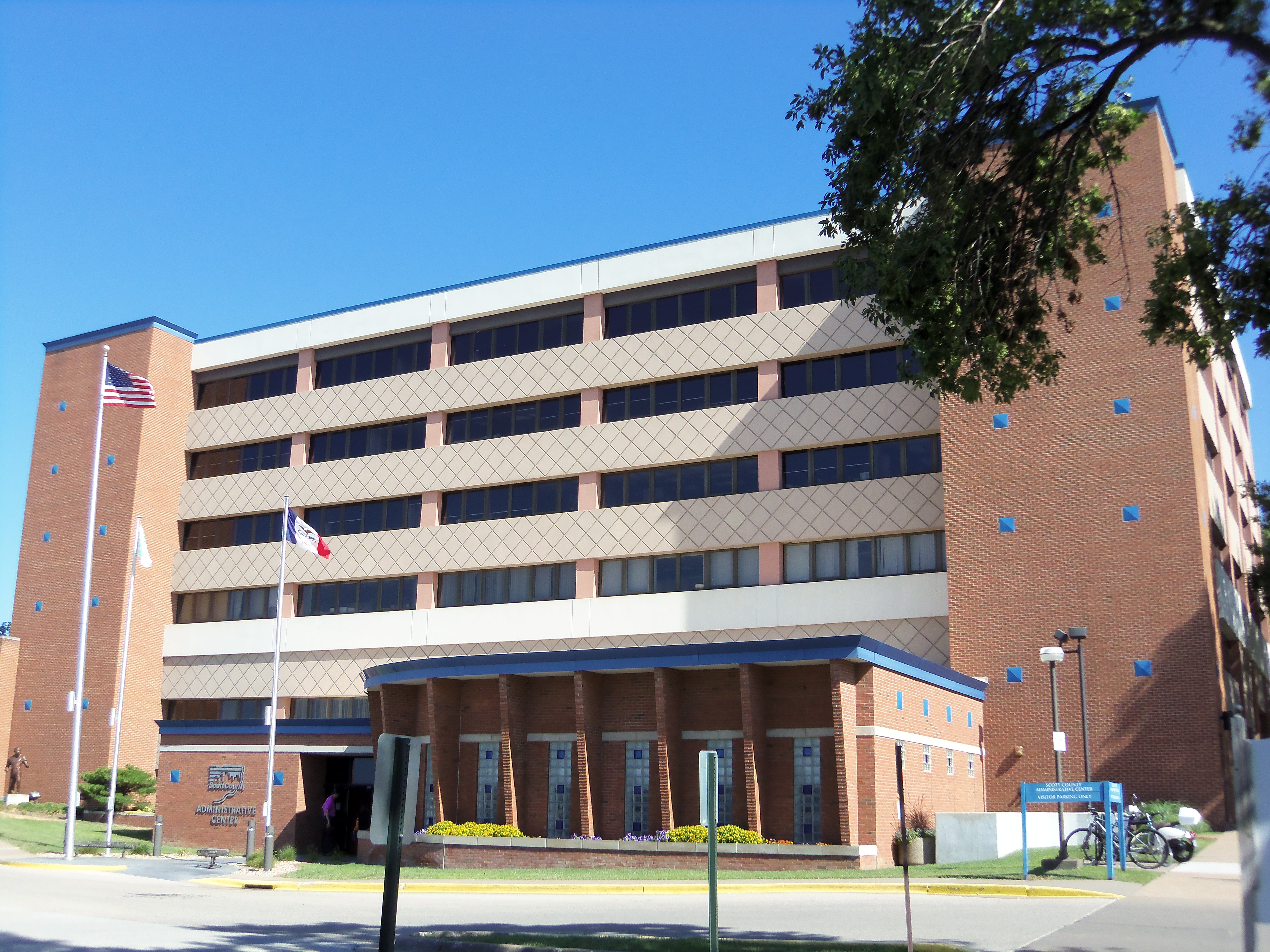 Scott County Administration Building in downtown Davenport, Iowa